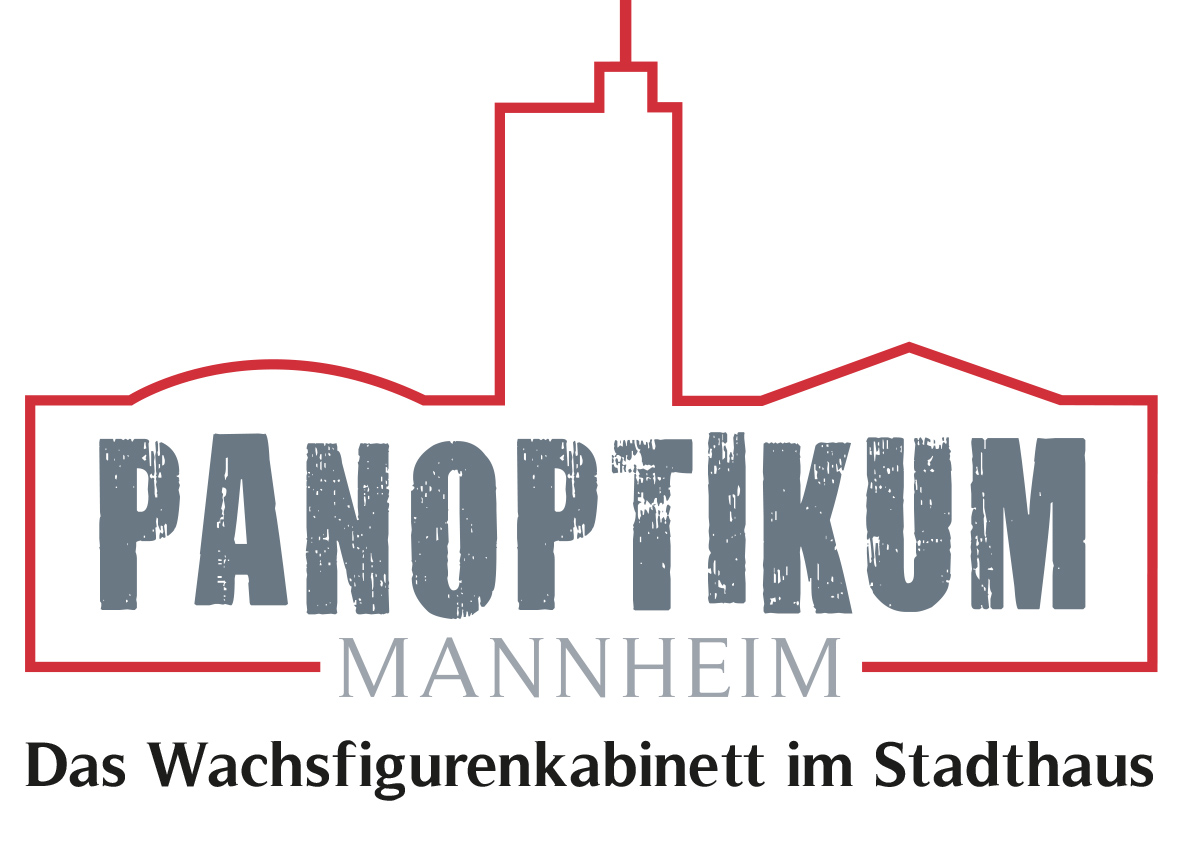 Logo Panoptikum Mannheim.